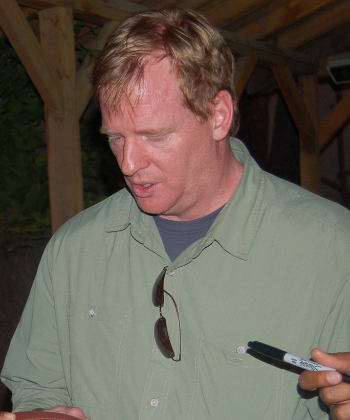 Camp Eggers, AF - National Football League Commissioner Roger Goodell on July 10 at Camp Eggers, Afghanistan.